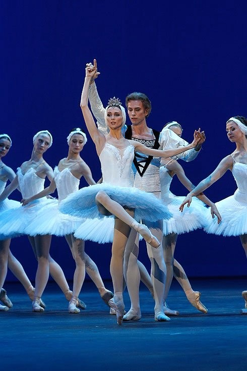 Svetlana Zakharova and Andrey Uvarov in an extract from Swan lake during the re-opening gala of the Bolshoi Theatre, 28 October 2011